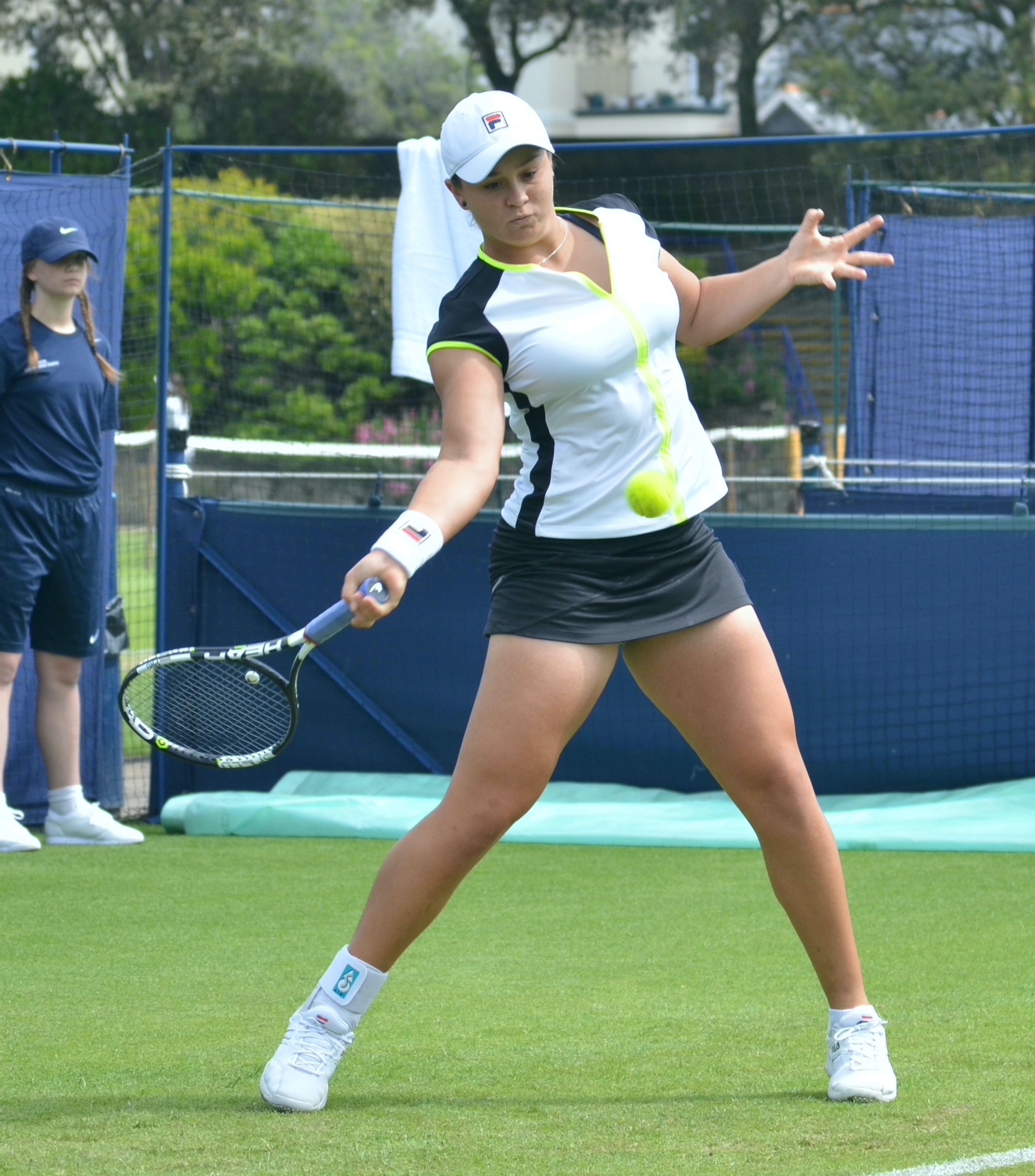 Ashleigh Barty at the 2016 Eastbourne $50k tournament